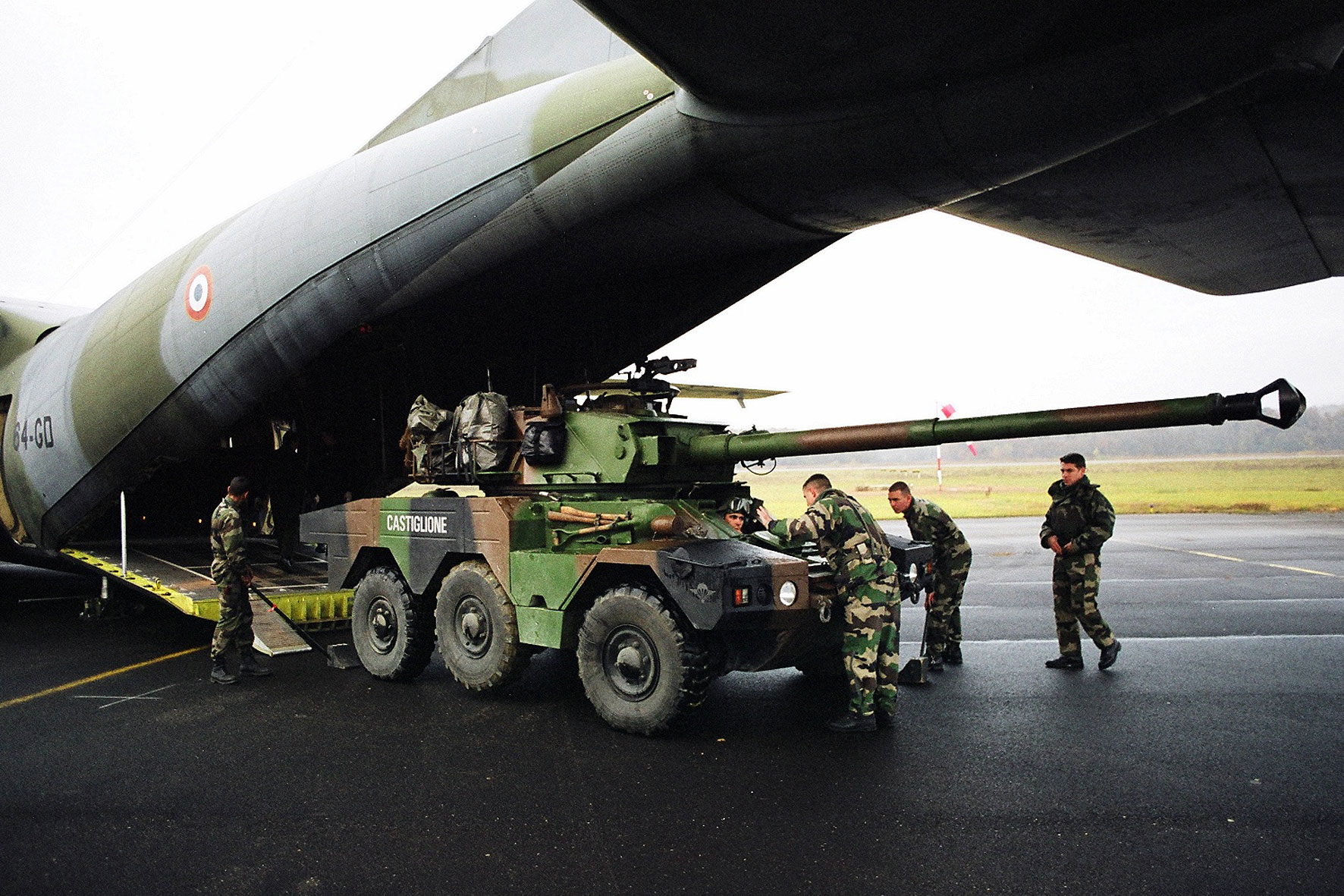 French armoured vehicle ERC-90 Sagaie of 1st Parachute Hussar Regiment getting ready for airlift.